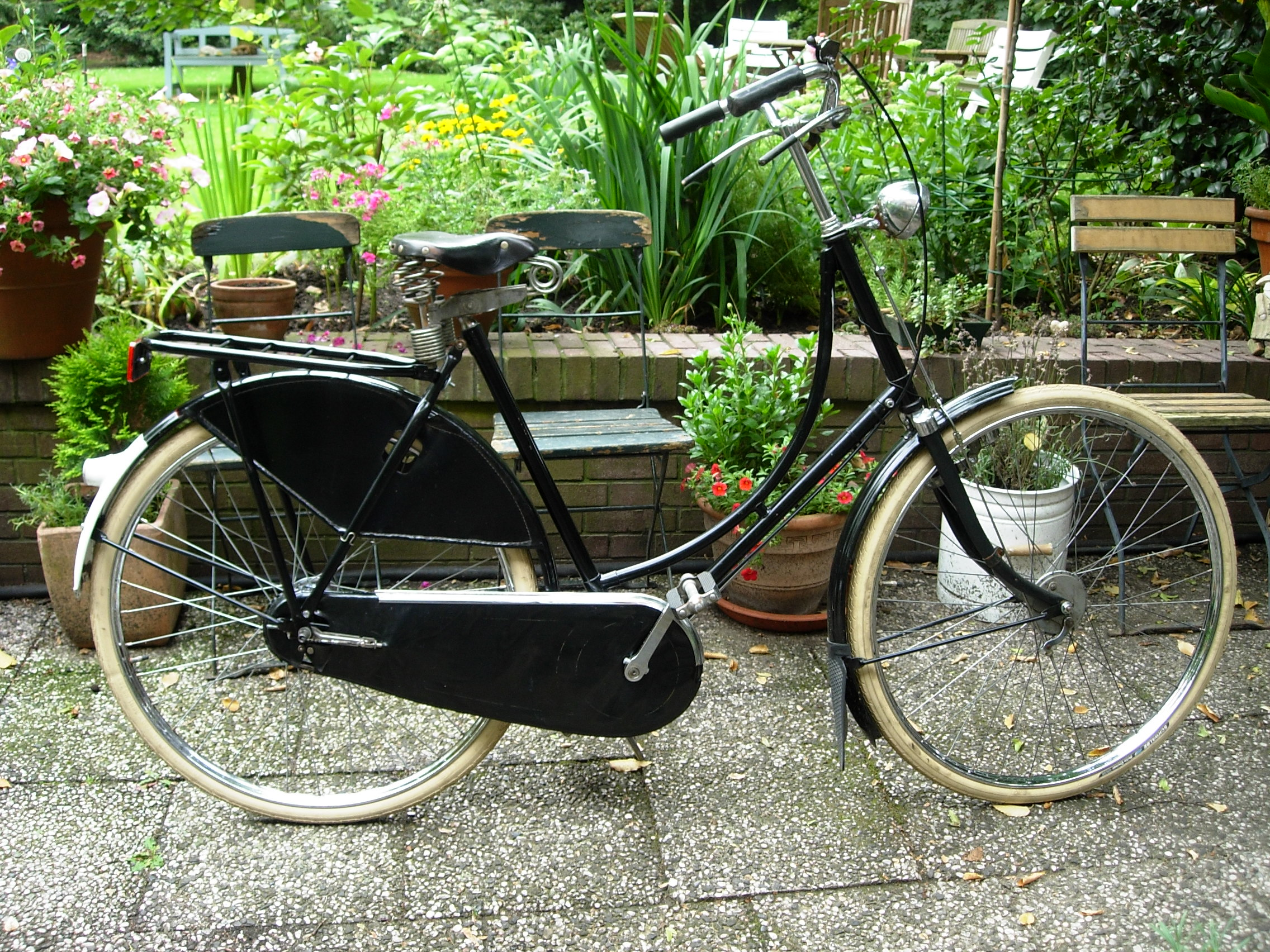 Gazelle luxurious lady's bike from 1954.